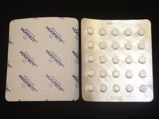 Sealed Noopept Blisterpack